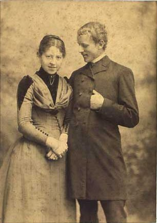 Portrait of Jørgen Luplau Janssen (1869-1927), Danish painter